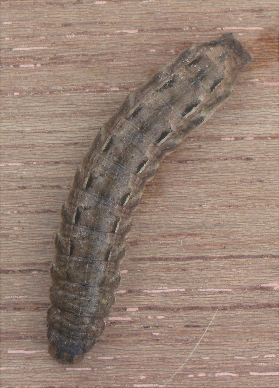 Noctua pronuba